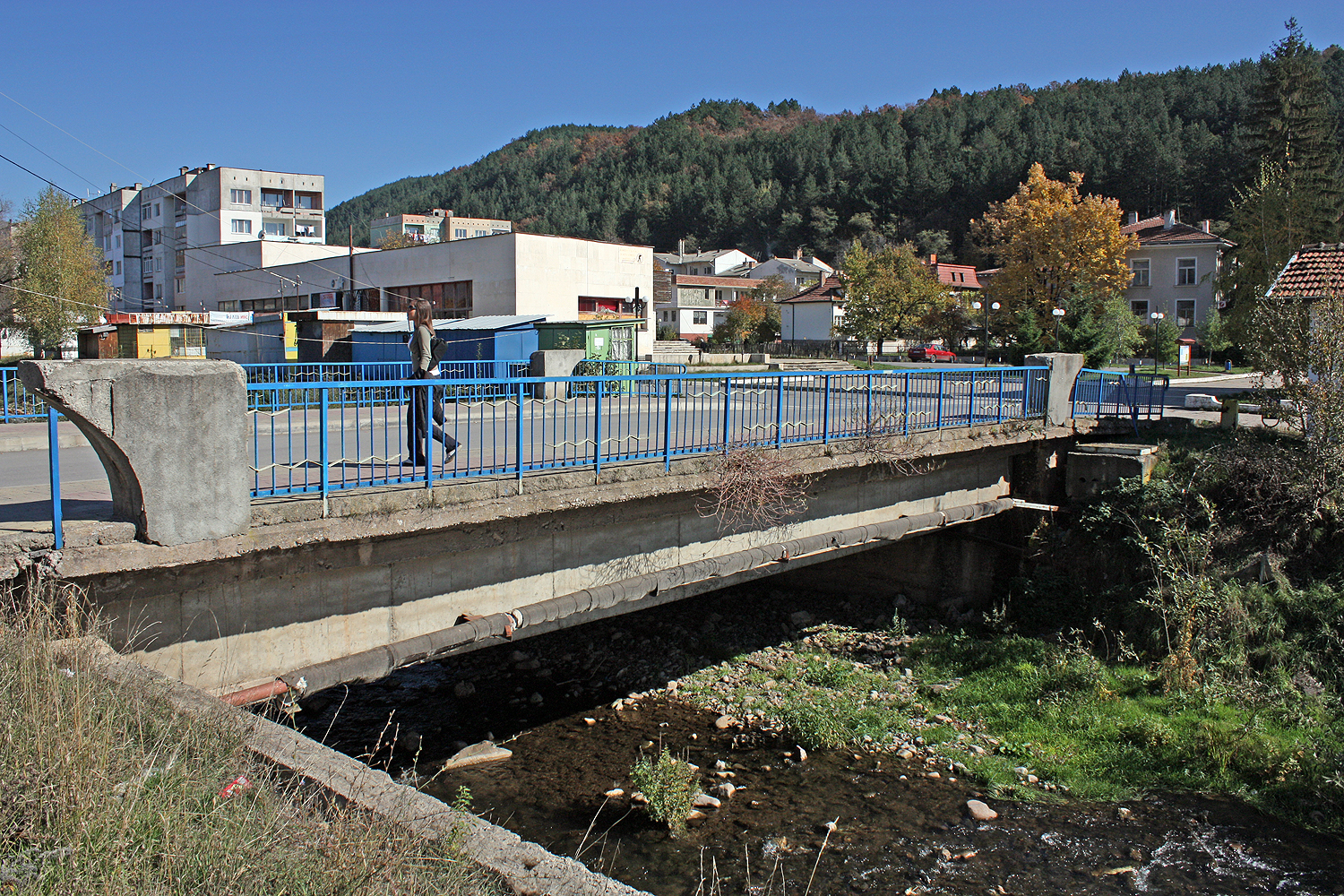 Бridge over Ginska river, Godech.